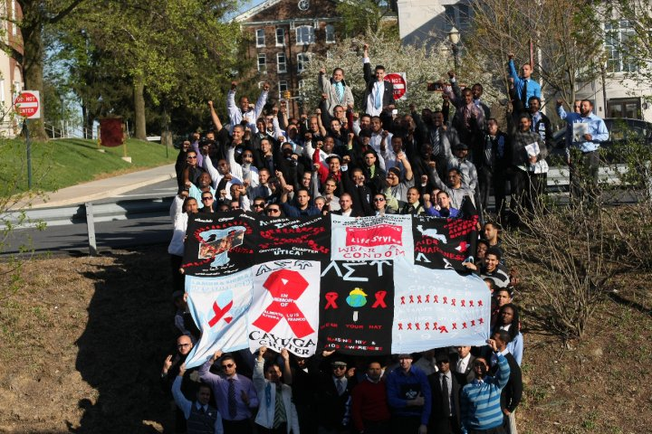 LSUAIDSWalk Quilt